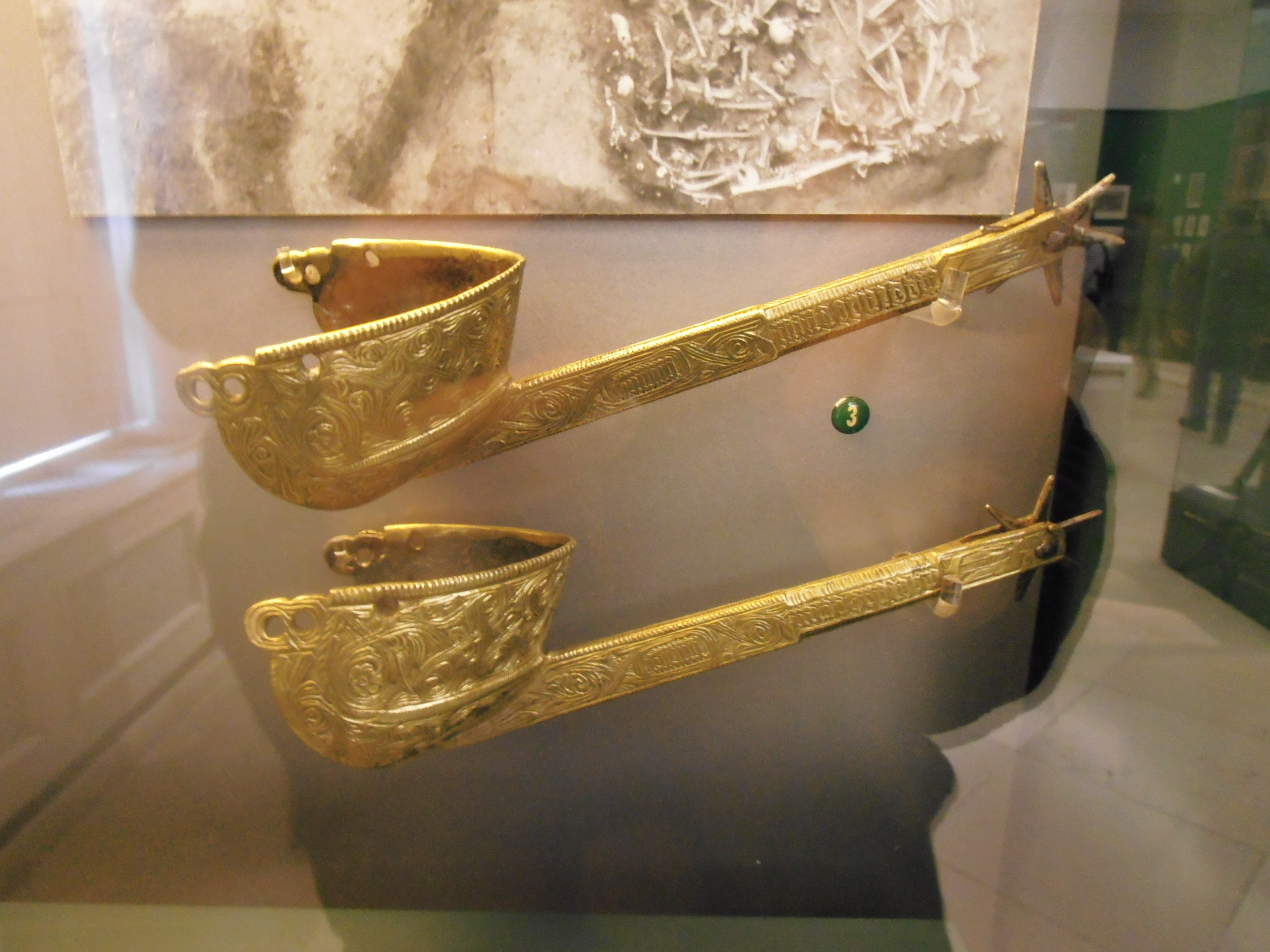 Golden spurs of Louis II of Hungary (Hungarian National Museum, Budapest)